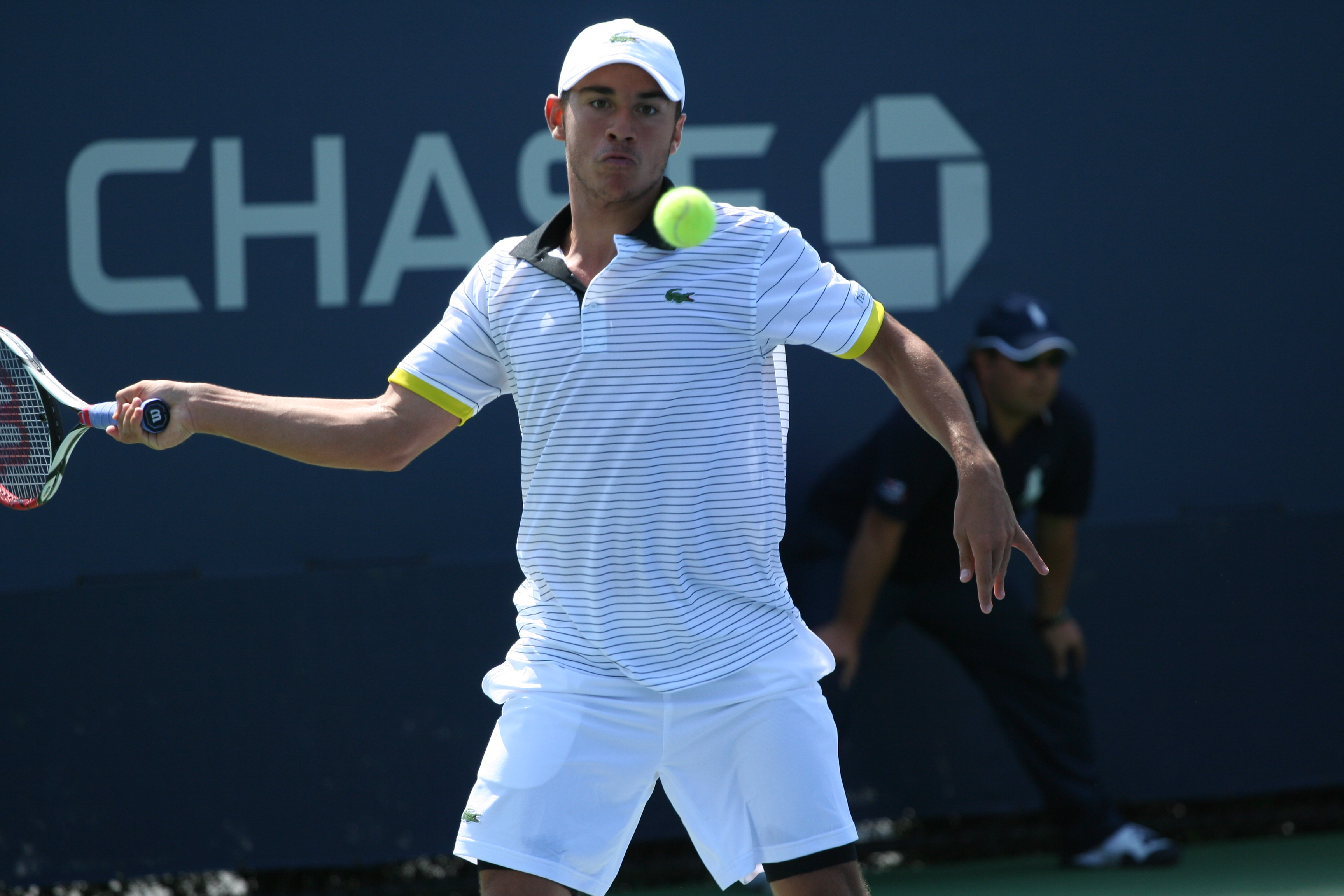 U.S. Open Juniors Sunday, Sept. 6, 2009